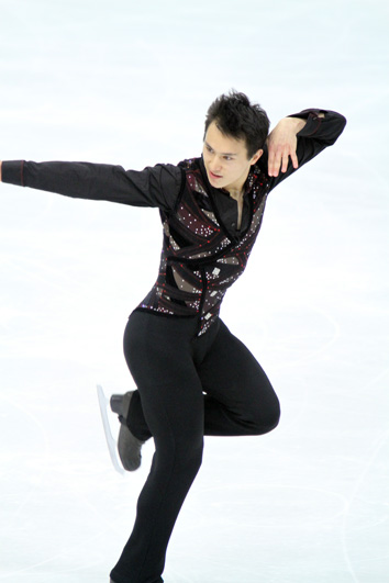 Patrick Chan skates his short program at the 2010 Winter Olympics in Vancouver.